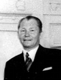 Polish poet, publicist, writer and editor of "Gazeta Literacka".